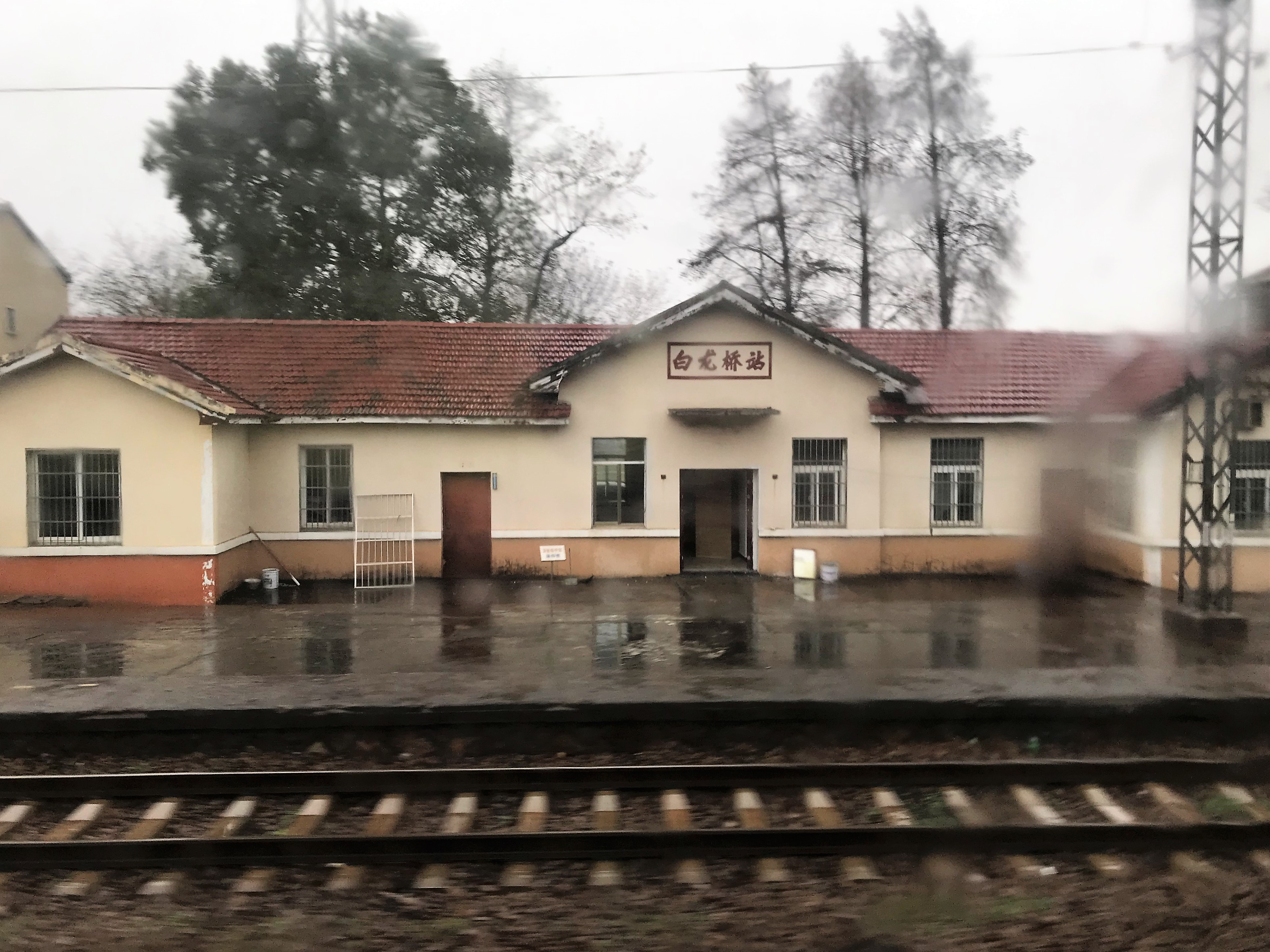 201901 Station Building of Bailongqiao Station (2)